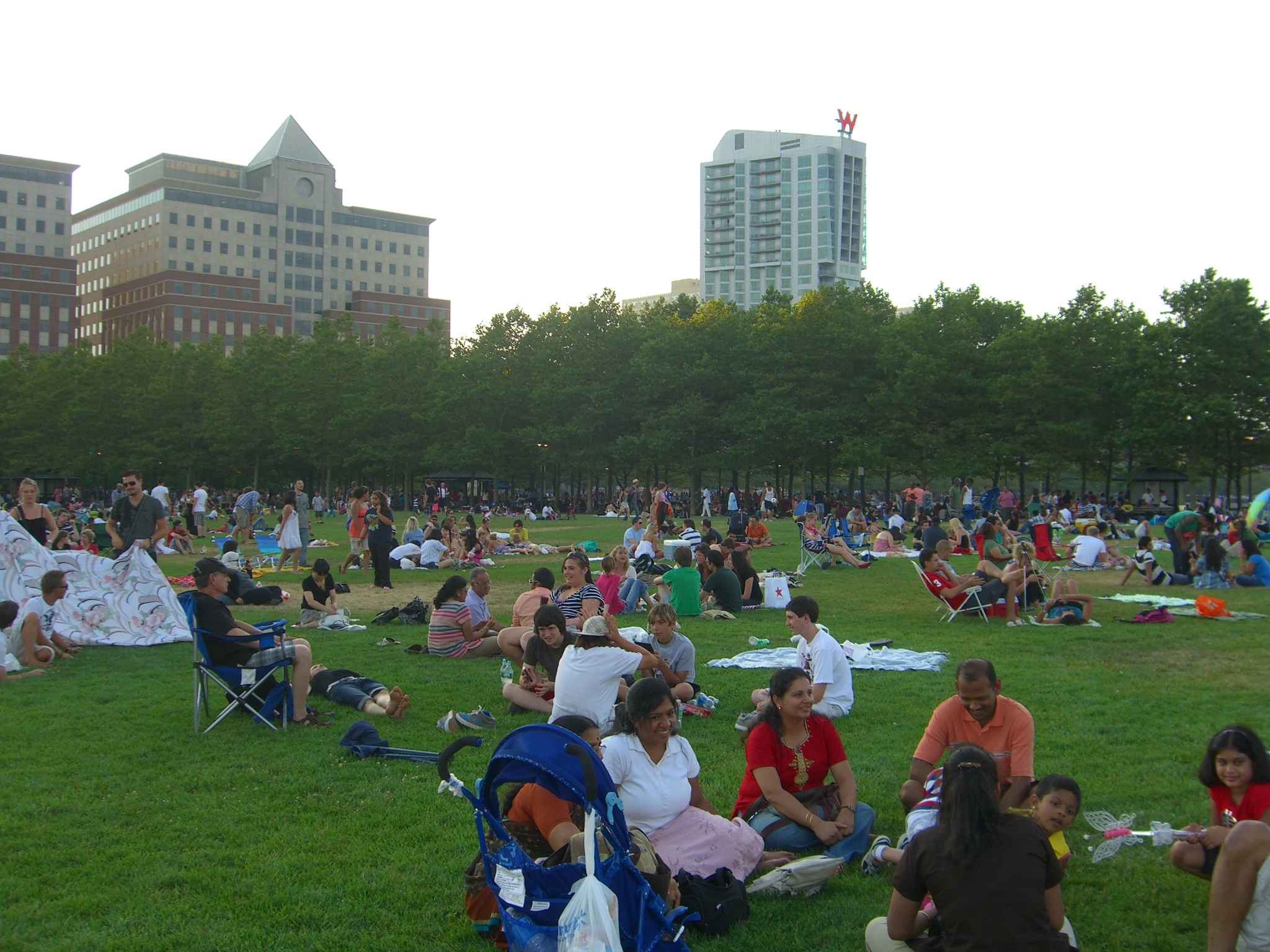 People gathered for Fourth of July festivities at Frank Sinatra Park in Hoboken, New Jersey. Photo by Luigi Novi. This photo may be used and modified, for any purpose, only if the photographer is visibly credited in each instance in which it is used. (See licensing information below.) For more information on my photos, you can contact me here.